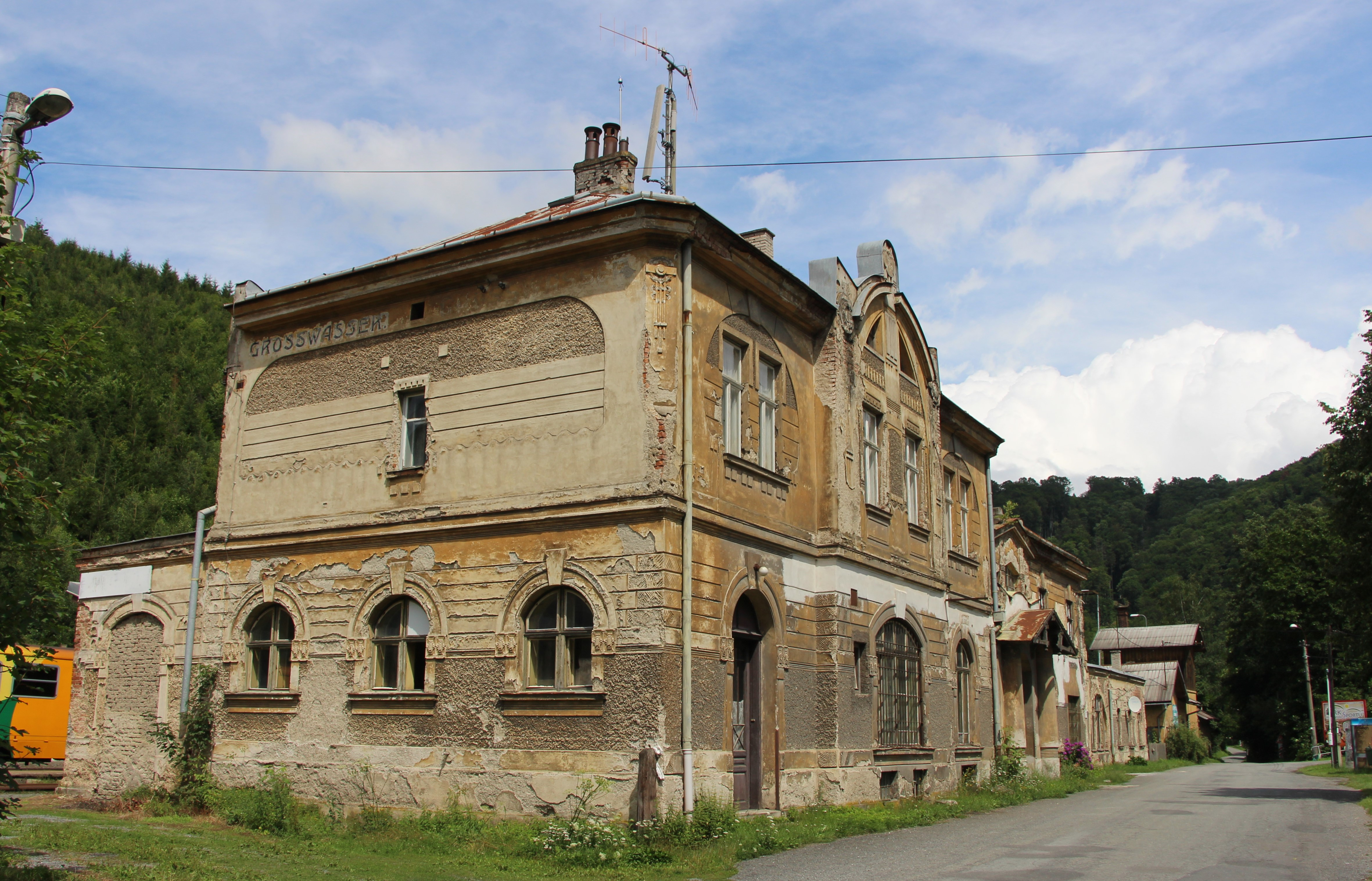 Hrubá Voda - train station. Czech Republic